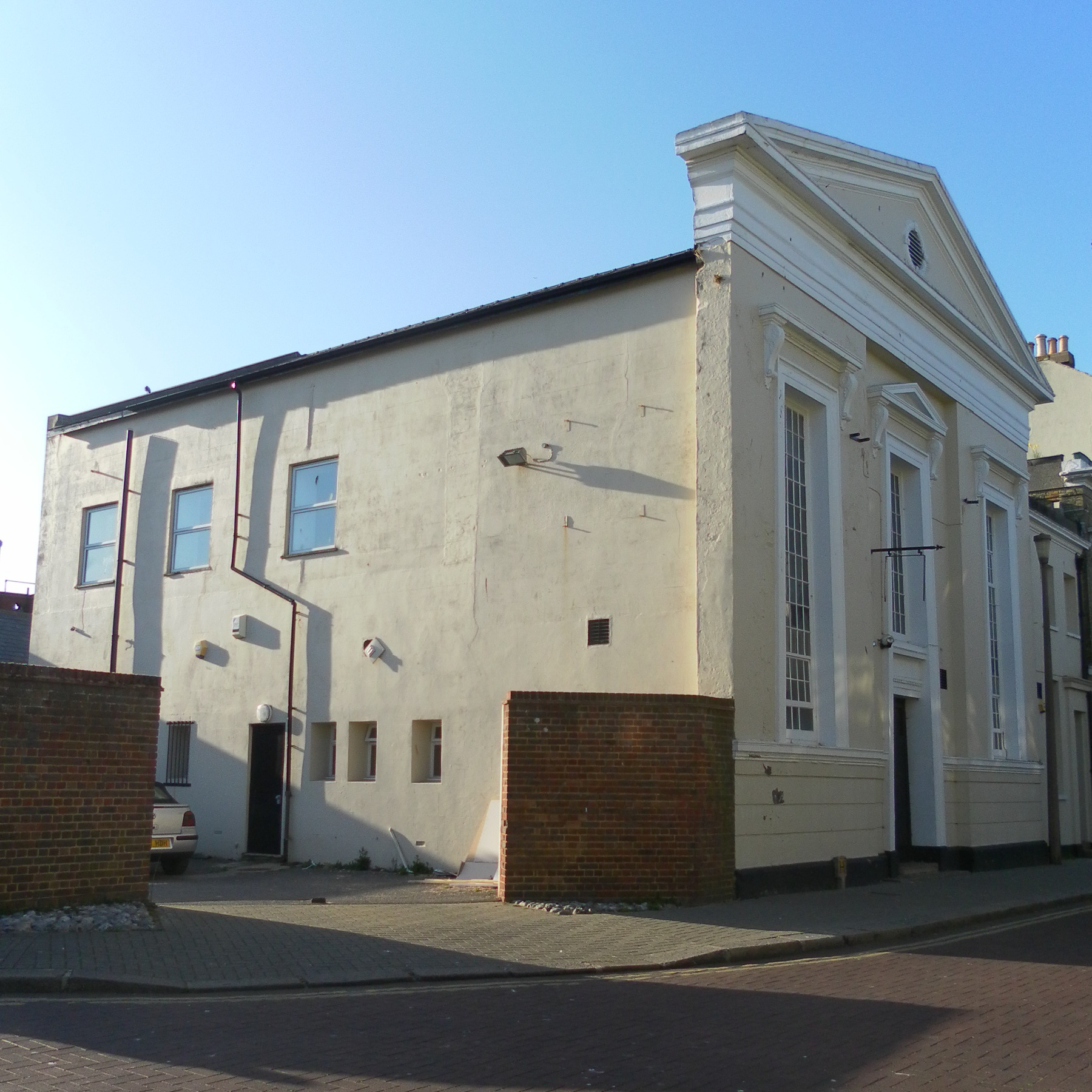 Former Bedford Row Methodist Chapel, Bedford Row, Worthing, West Sussex, England. Built in 1839, and now part of the Vintners Parrot pub.